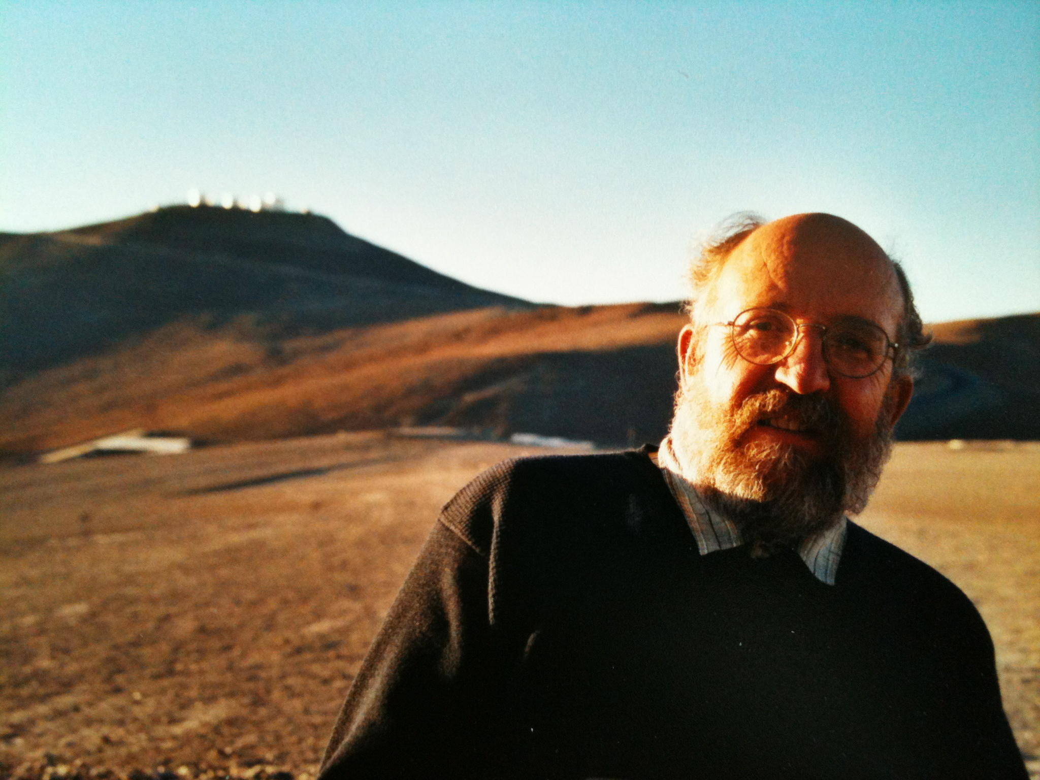 Michel Mayor, astrophysicist, in front of the Very Large Telescope (Chile), in 2004.